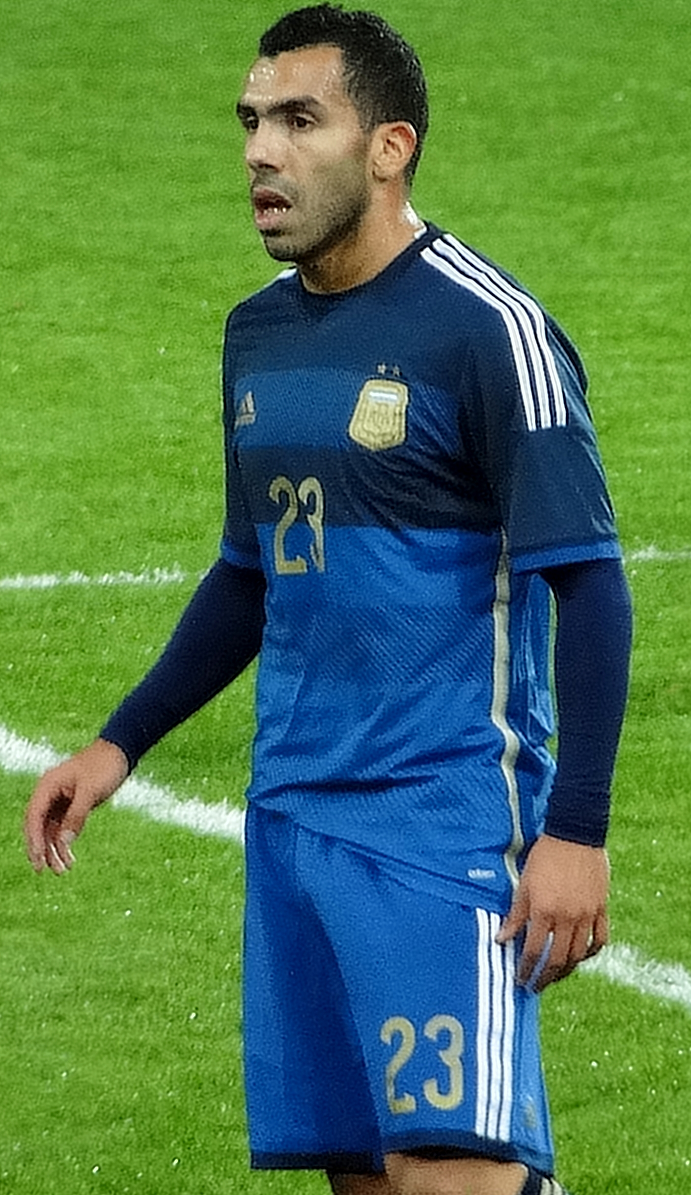 Carlos Tevez with Argentina in their friendly game against Croatia at the Boleyn Ground, November 2014